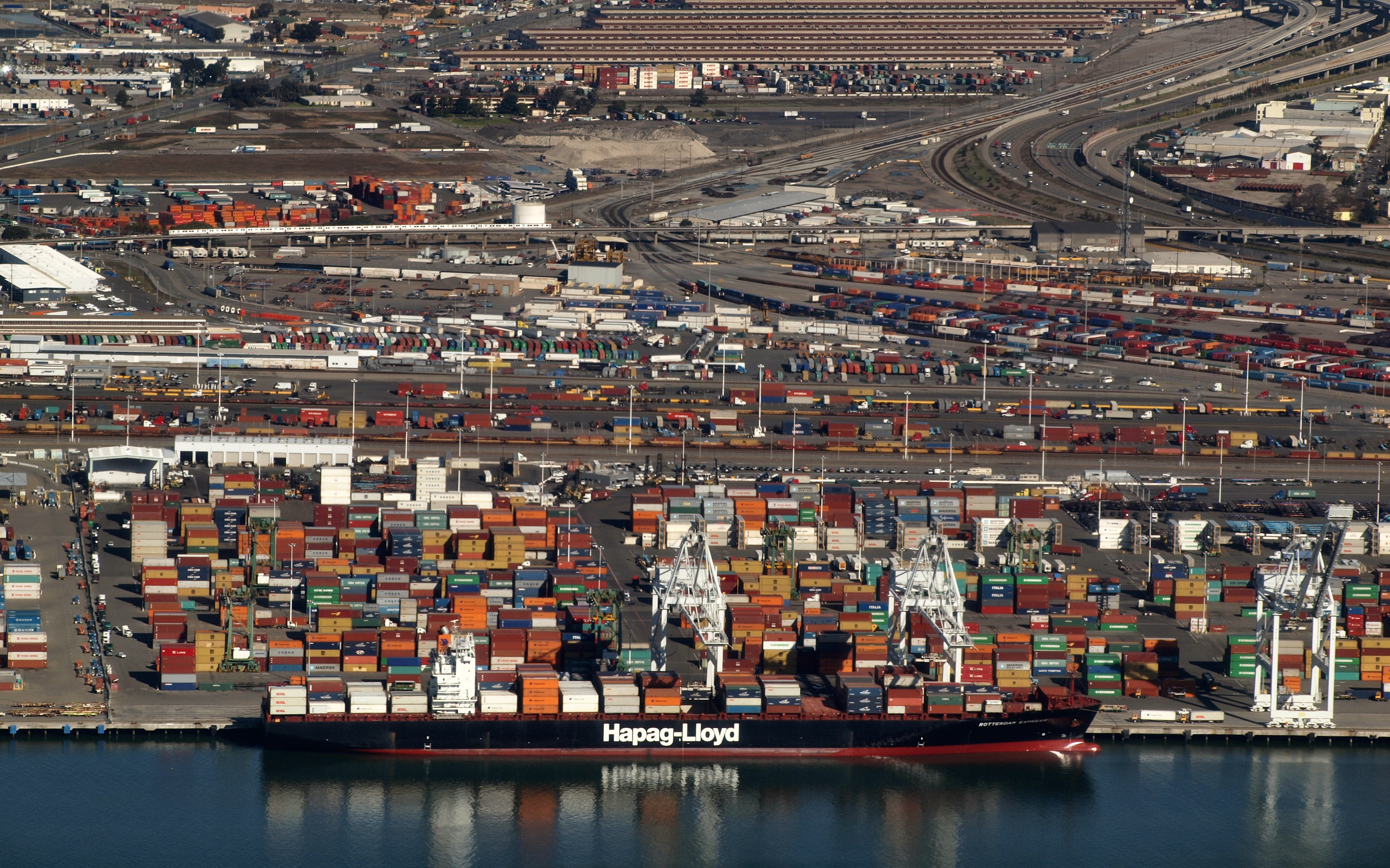 Port of Oakland, aerial photograph from a SWA flight inbound to OAK from PDX.